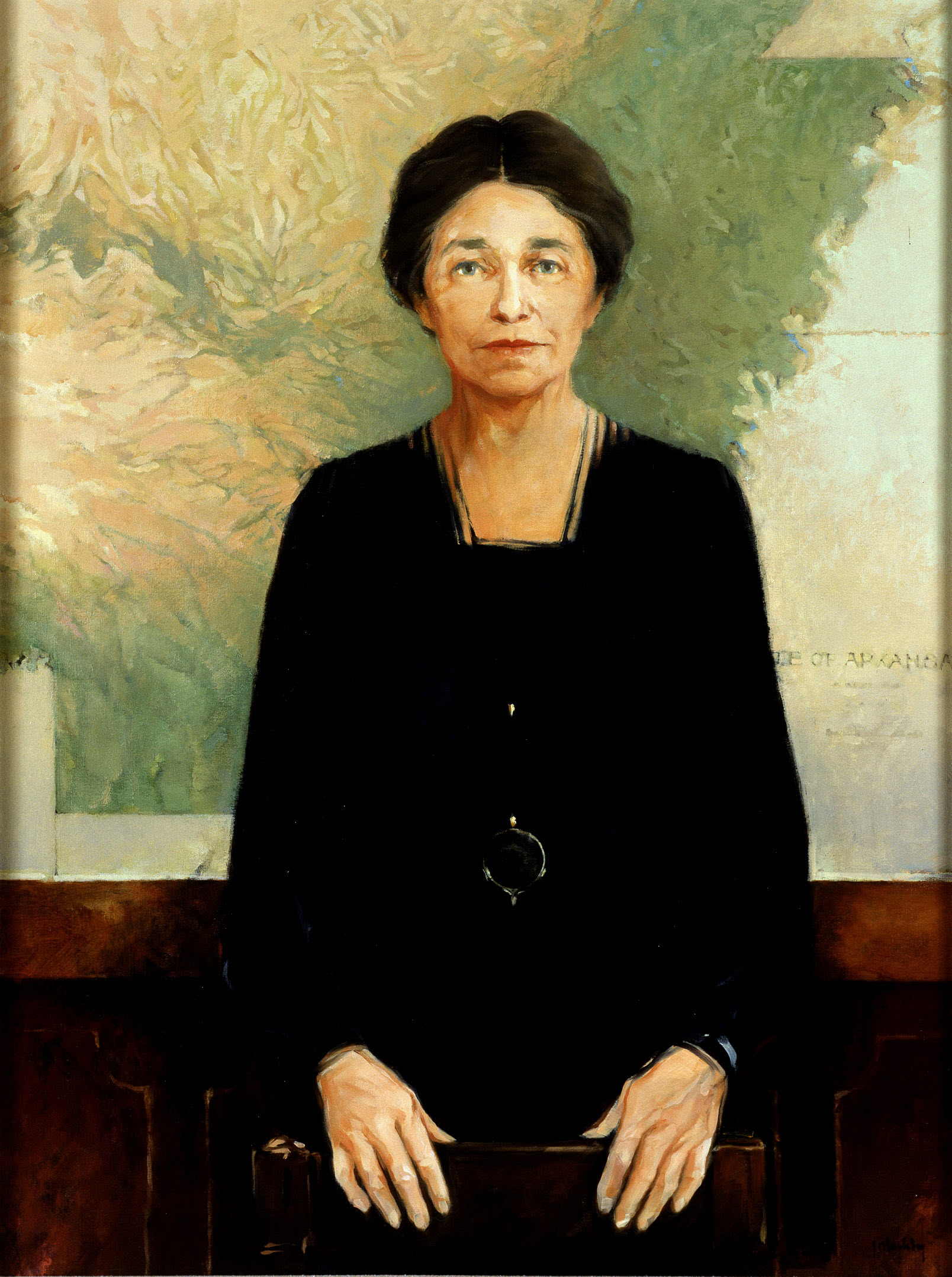 Portrait of Senator Hattie Caraway